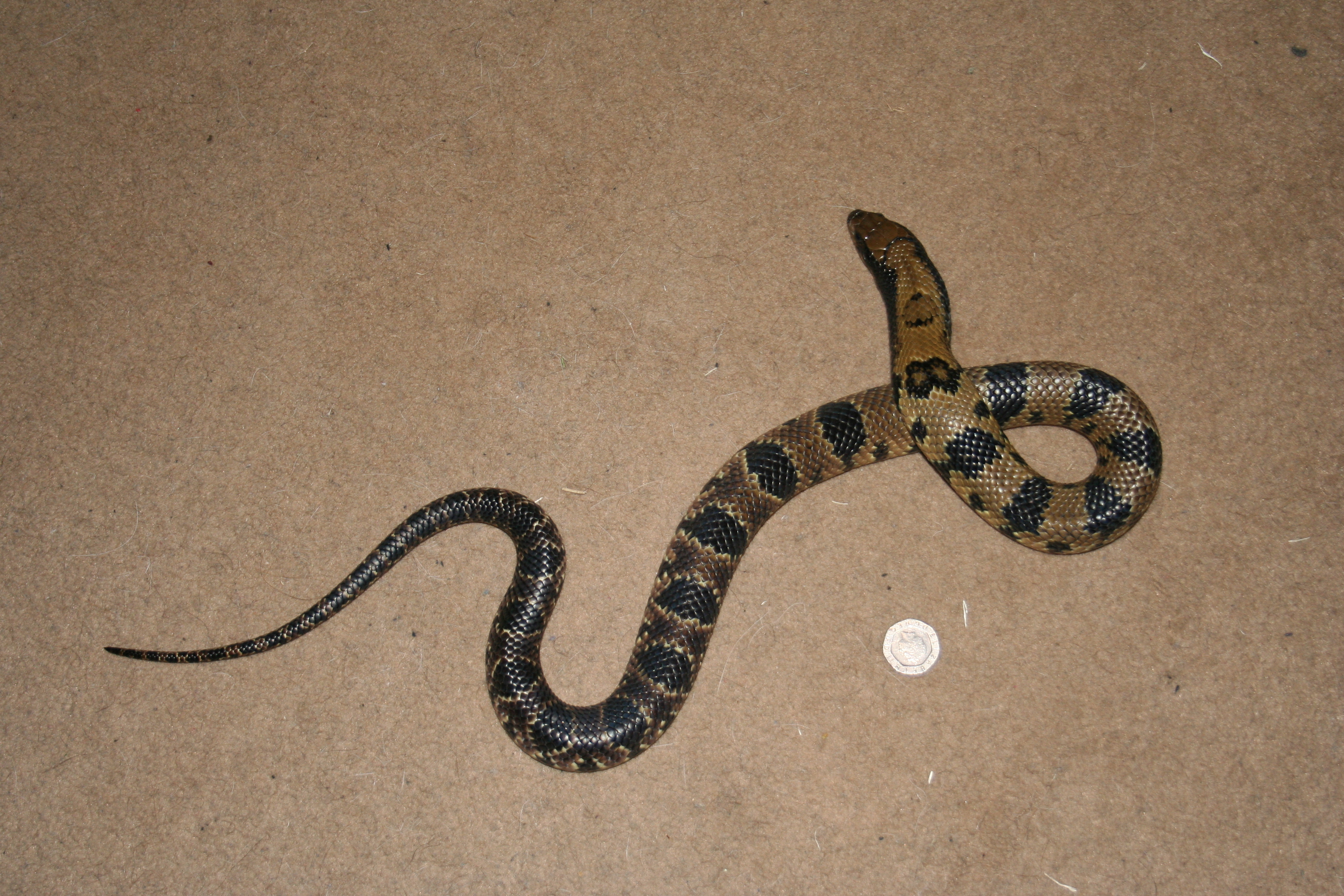 Juvenile H. gigas next to 20p piece for size comparison